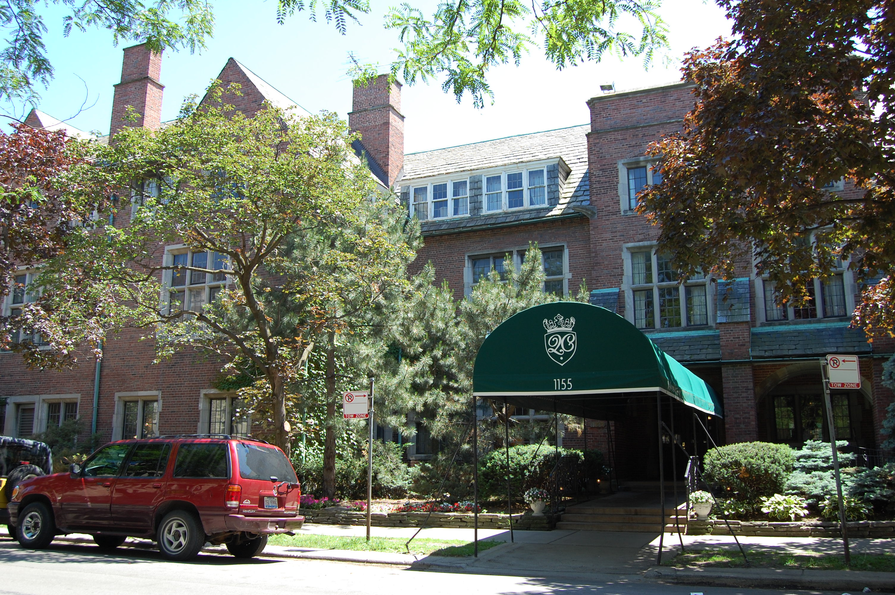 View of the Quadrangle Club's front entrance on 57th Street in Chicago.